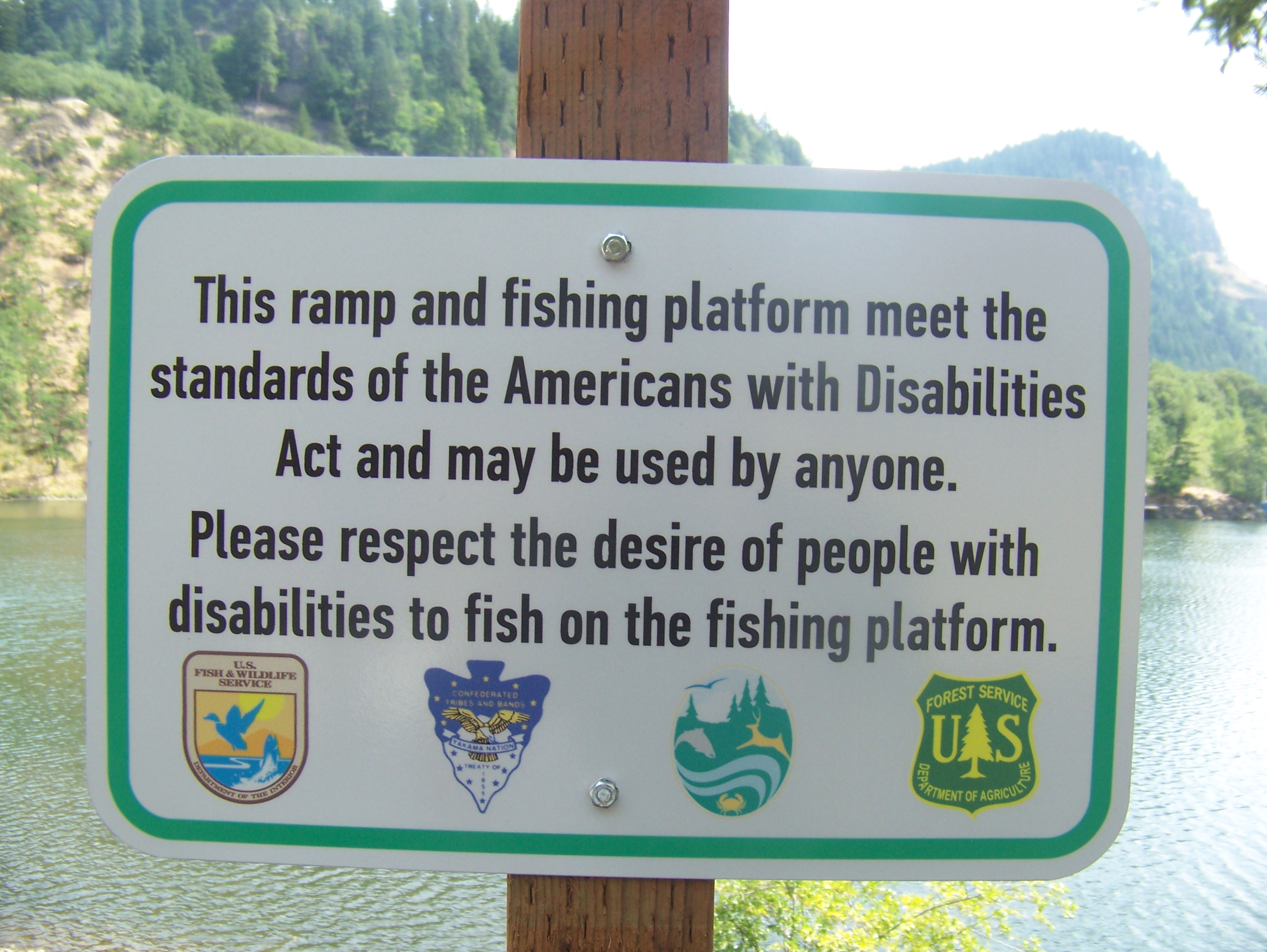 Little White Salmon National Fish Hatchery and partners officially dedicated the Drano Lake ADA Fishing Platform, July 19, 2012. Photo Credit: Sean Connolly, USFWS.